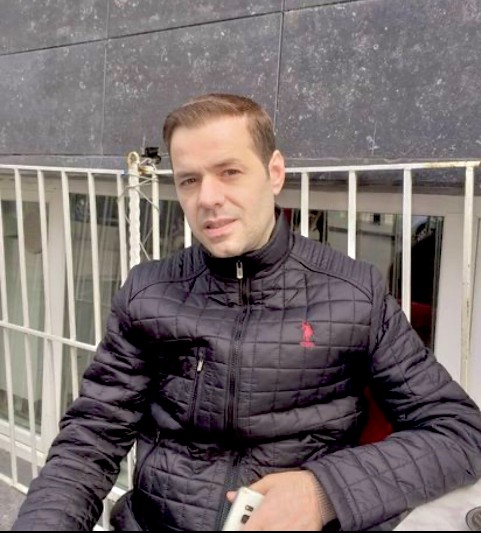 Photograph of Engin Nursani.